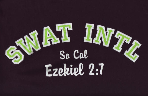 Tshirt for Harvest SWAT Team, scanned t-shirt